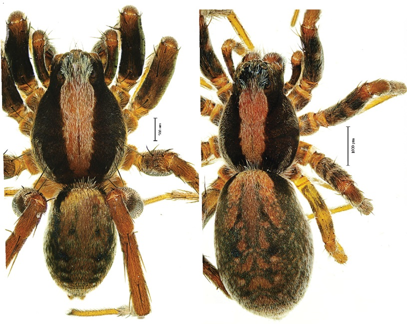 Xerolycosa nemoralis male (left) and female